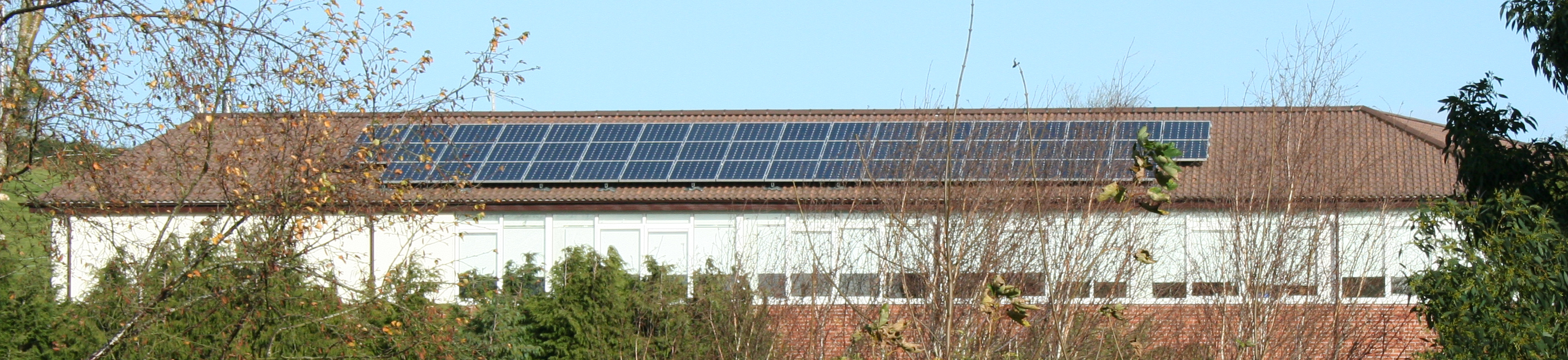 Array of Solar Panels, Saintfield High School, Northern Ireland